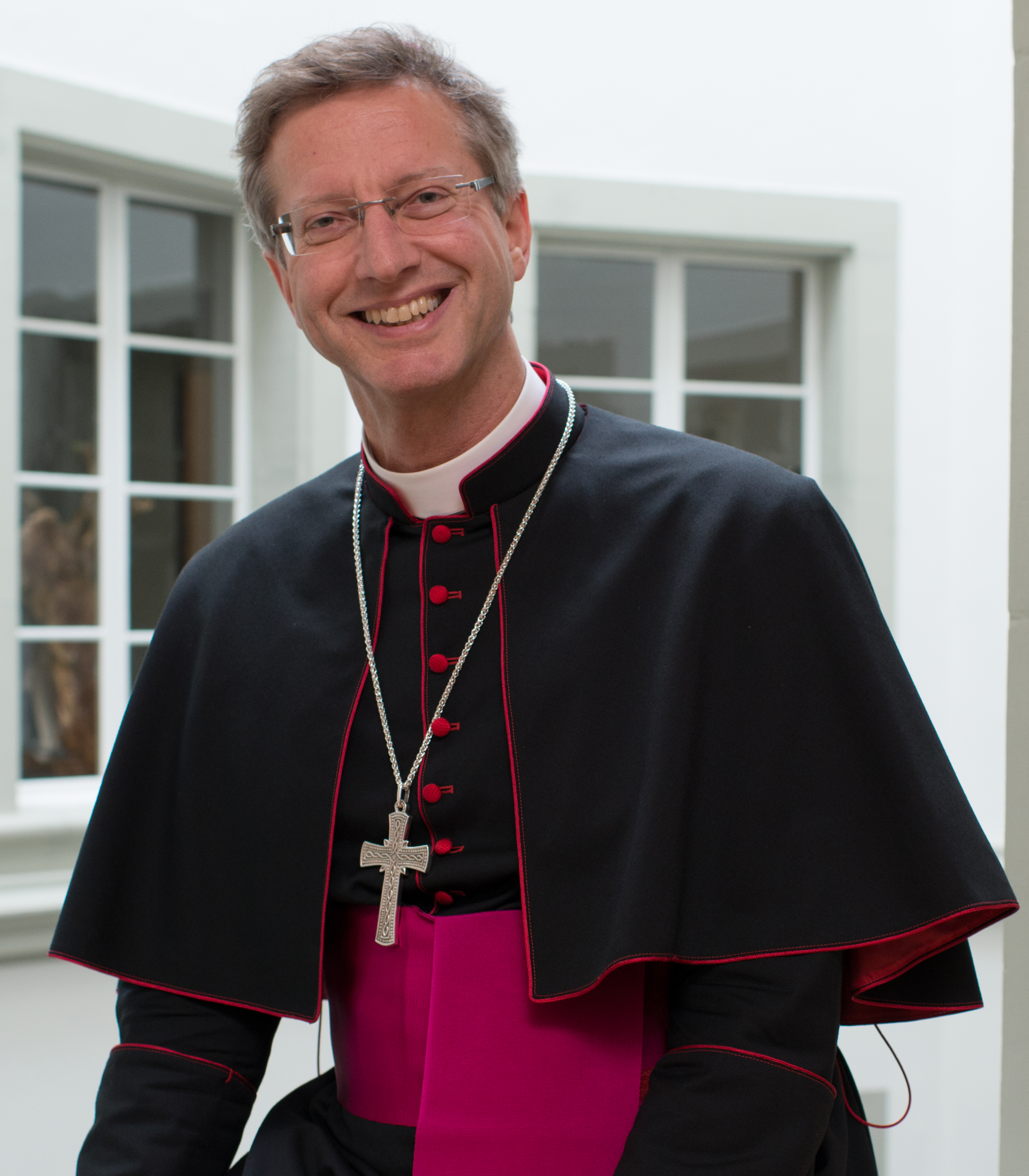 Portrait of Alain de Raemy.